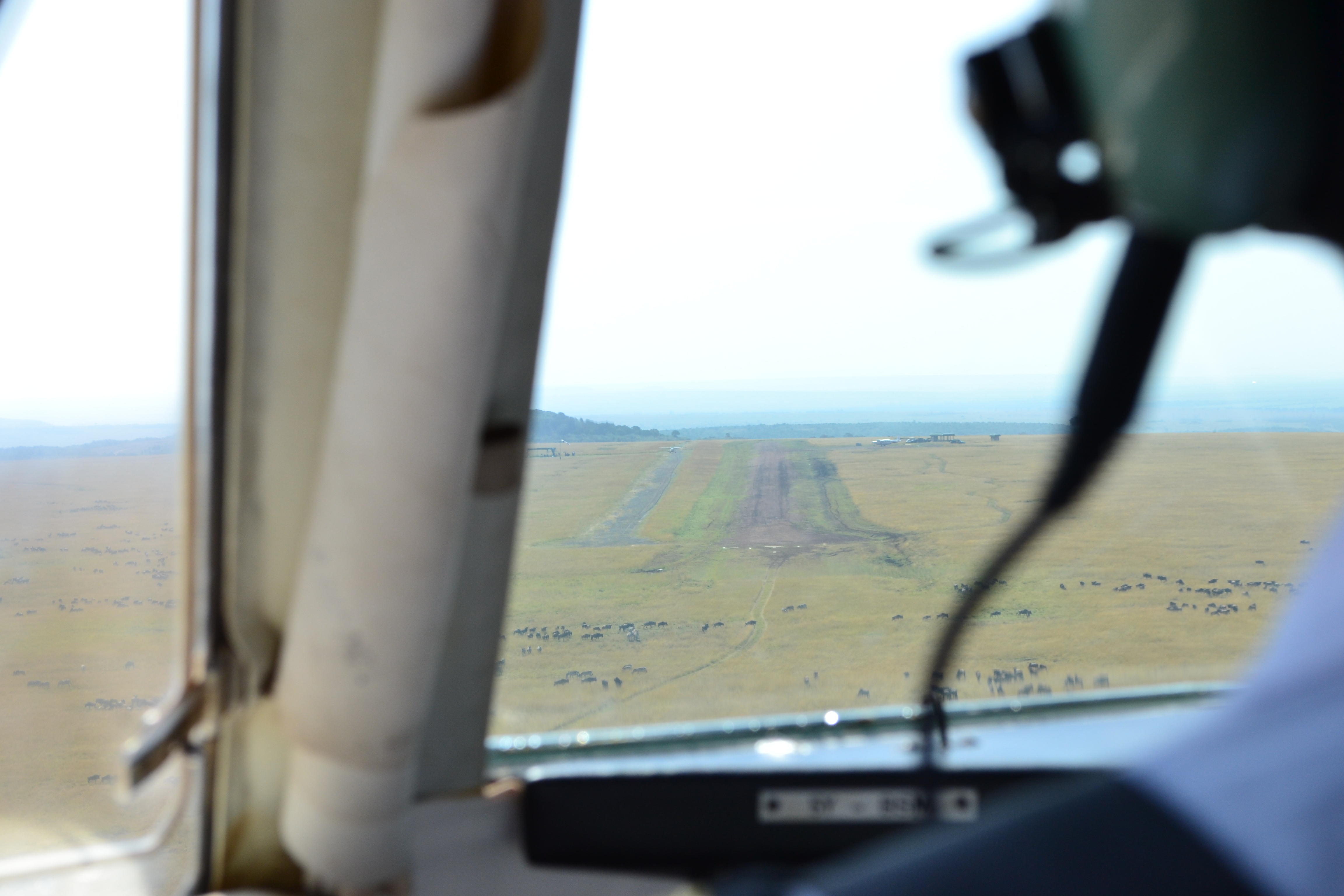 Mara Serena Airstrip, as seen from the cockpit of a small two-propeller aircraft operated by Mombasa Air Safari.